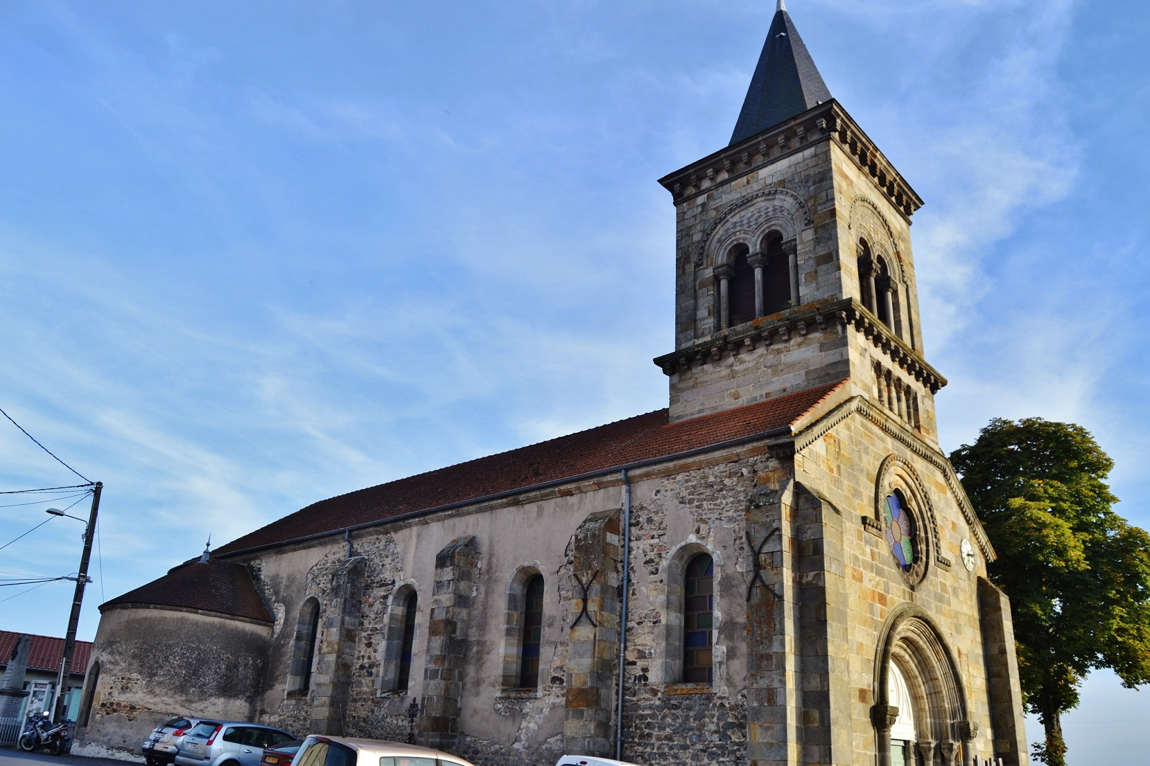 L'église